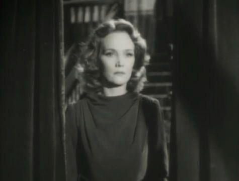 Elizabeth Russell in The Curse of the Cat People - trailer (cropped screenshot)